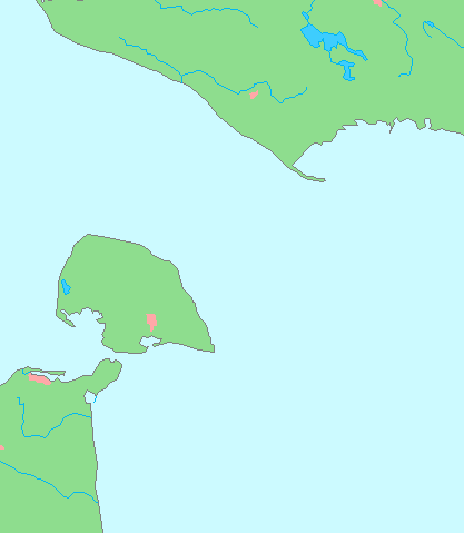 Fehmarn (island) and Fehmarn Belt (sound) in the Baltic Sea. Bounding box West 10.9°, South 54.2°, East 11.8°, North 54.8°. Center at 54°30′00″N 11°21′00″E / 54.50000°N 11.35000°E.